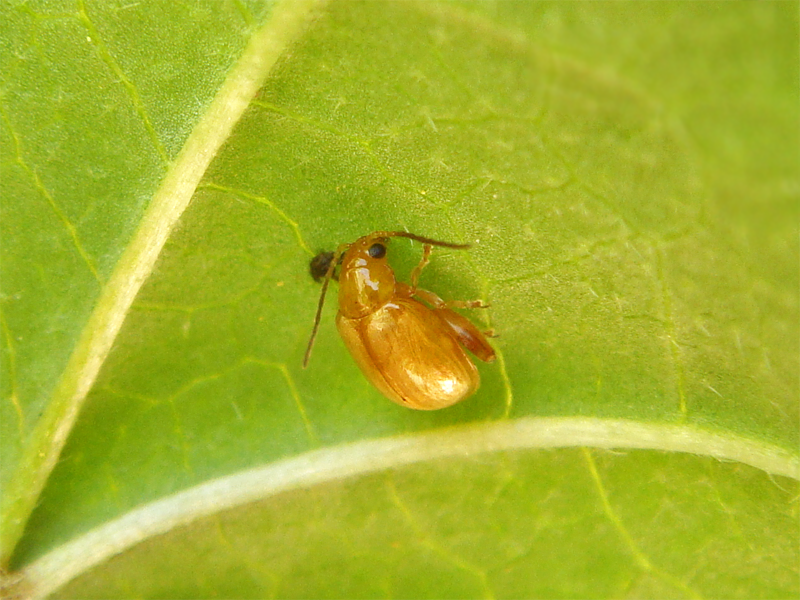 Aphthona flaviceps in Ansião, Leiria, Portugal